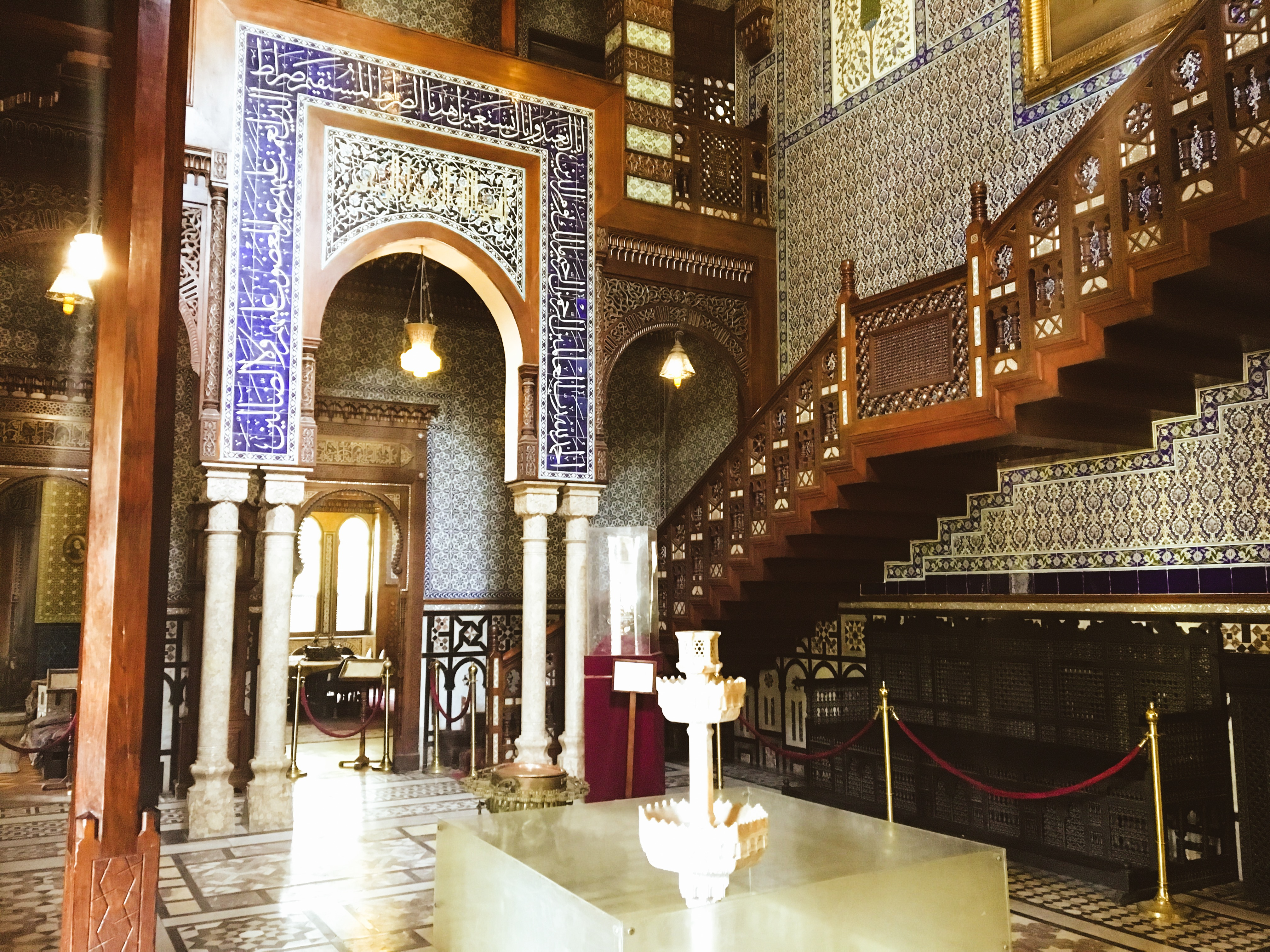 Mohammad Ali Tawfik Palace, Al-Manyal, Cairo. Egypt.